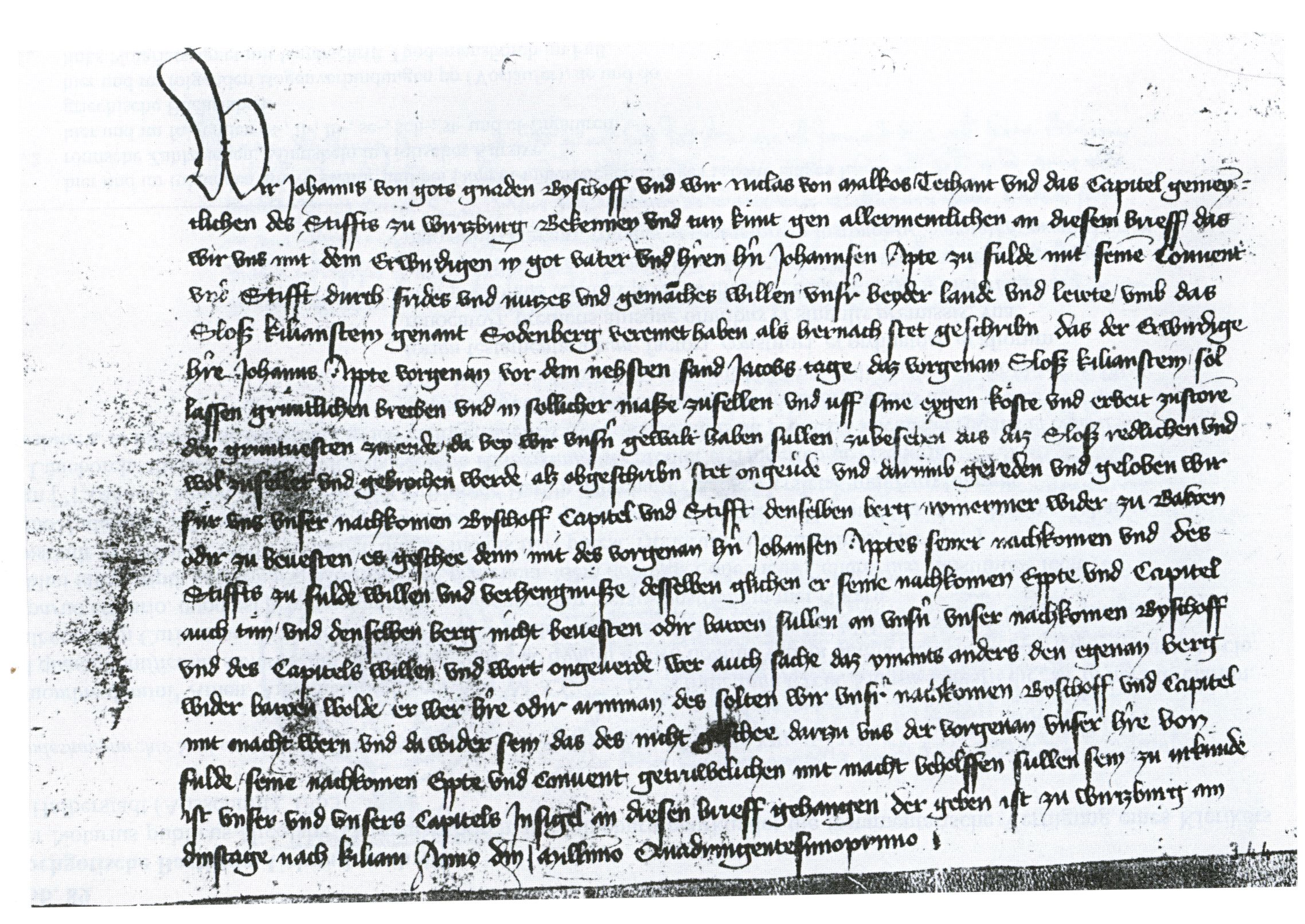 A charter of bishop John of Würzburg. Script: Bastarda. Marburg, Hessisches Staatsarchiv, A Urkunden, Urk. 75 Reichsabtei Fulda, Stift, 1401 Juli 12.